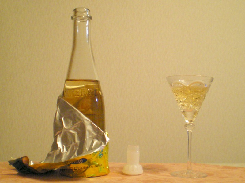 White Chanmery